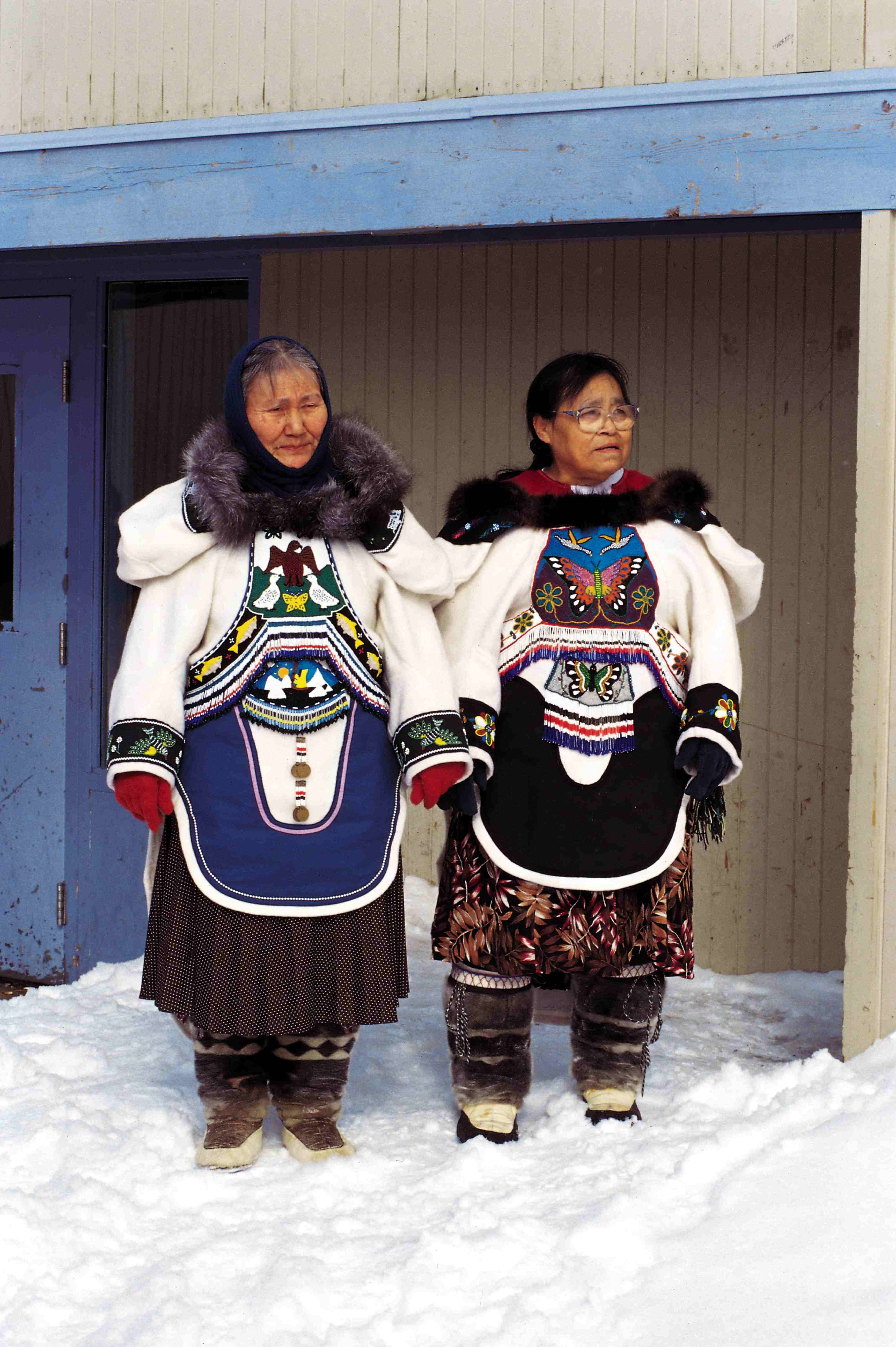 Throat singers